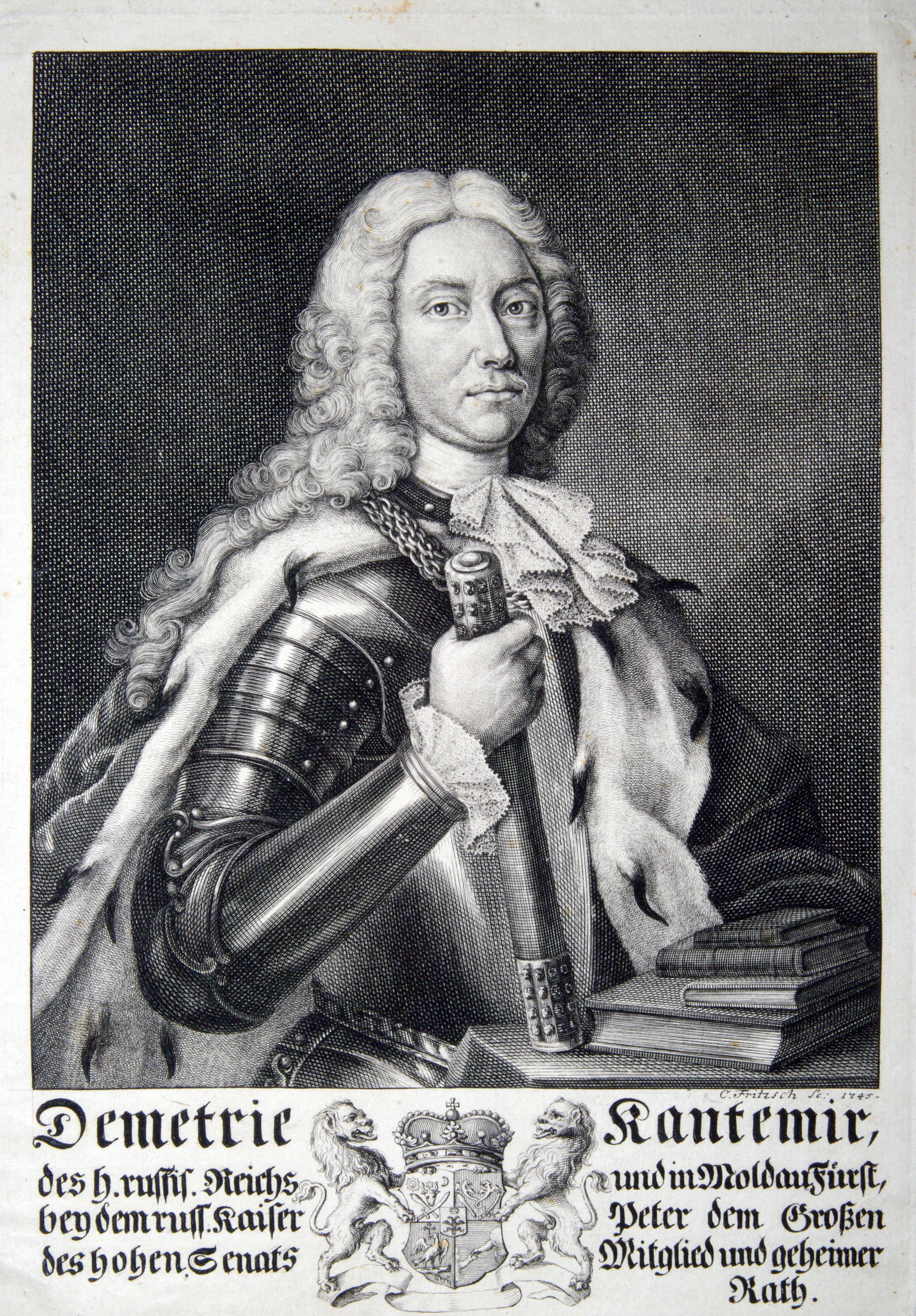 Portrait of Dimitrie Cantemir, from the first edition of Descriptio Moldaviae